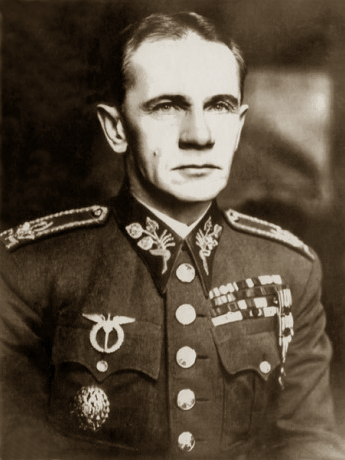 Sergěj Vojcechovský (1883—1951) — Russian and Czechoslovakian military commander, Lieutenant-General (1920), one of the leaders of the White movement in Siberia. General of the Army of the Czechoslovak Republic (1938).